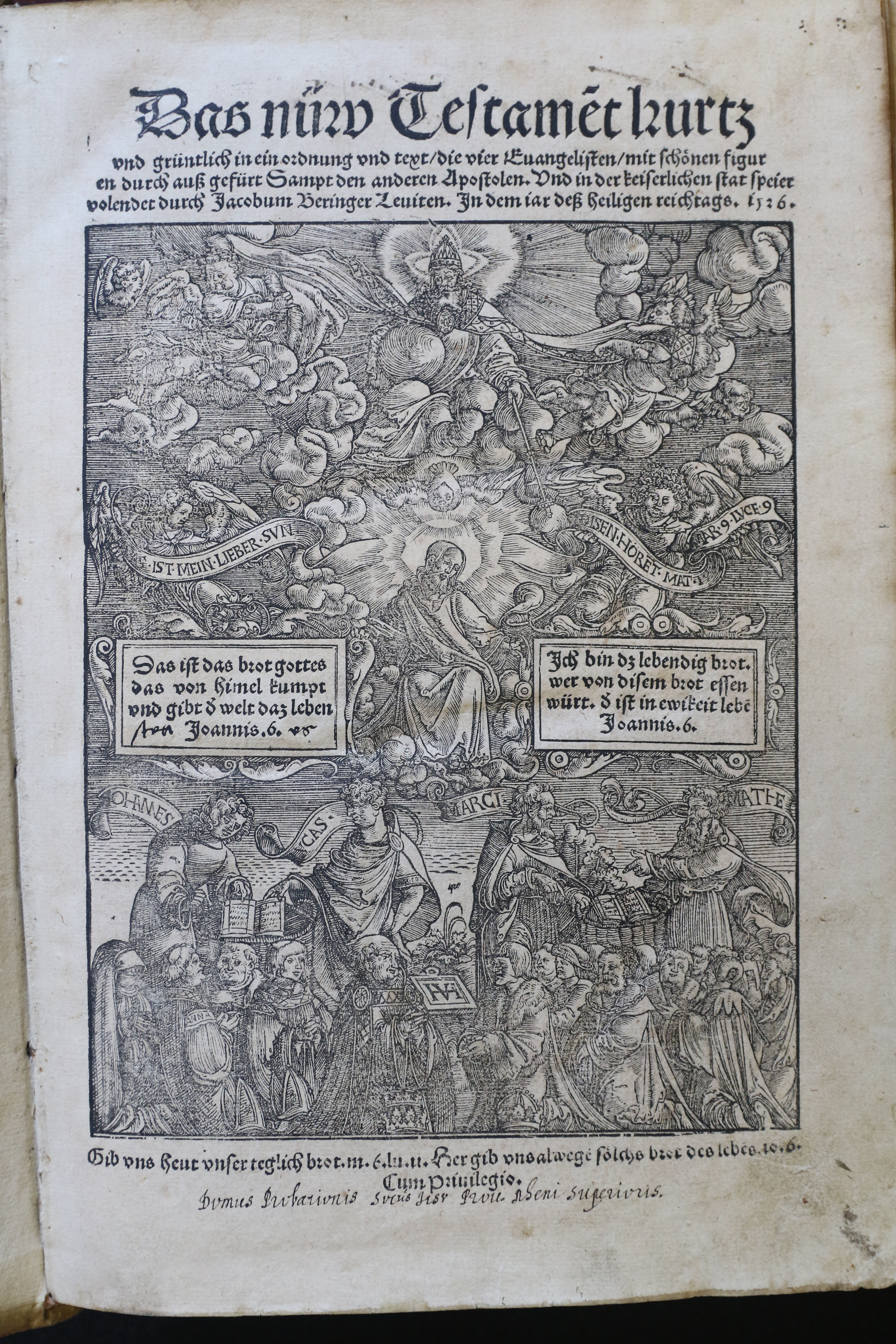 Title page of Jacob Beringer, Nüw Testament